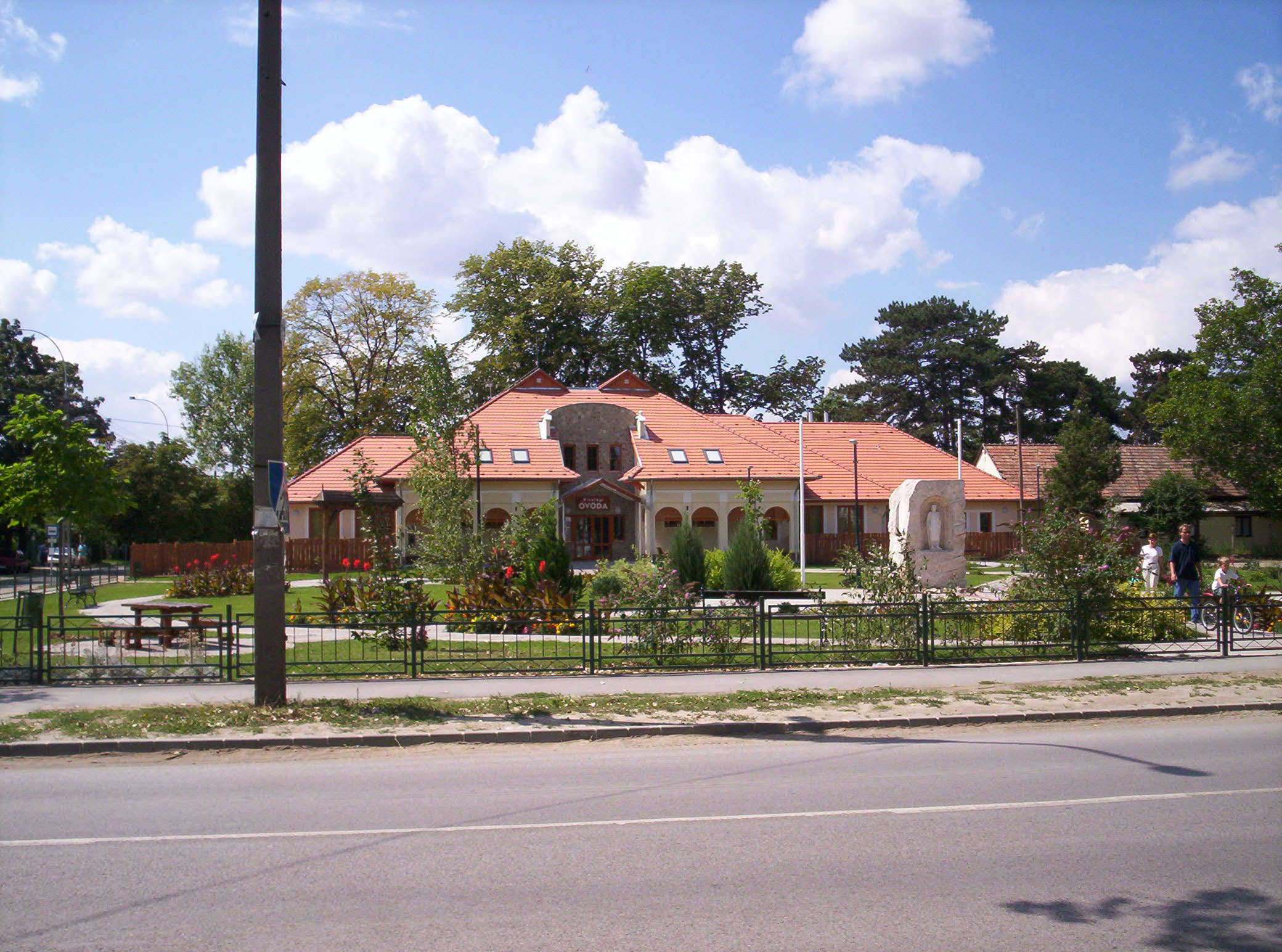 Procession square in Fót